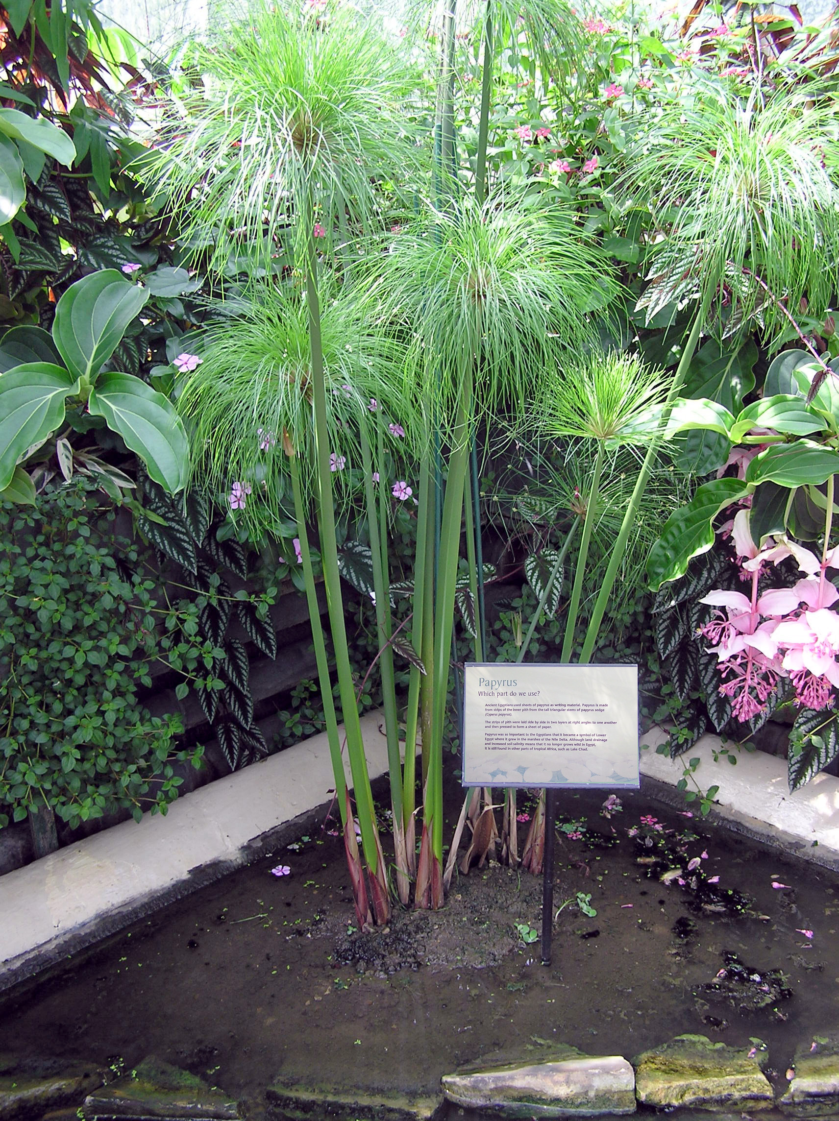 Papyrus plant (Cyperus papyrus) at Kew Gardens, London, England. Photographed by Adrian Pingstone in June 2005 and released to the public domain.